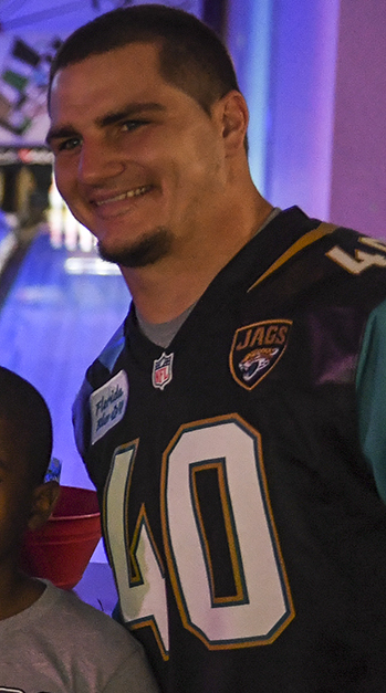 MAYPORT, Fla. (Nov. 6, 2017) Players and cheerleaders from the Jacksonville Jaguars visit with Sailors and families during the NFL's "Salute to Service" at the Naval Station Mayport bowling alley. The league's annual military appreciation efforts culminate in November with special events honoring veterans, active duty service members and their families. (U.S. Navy photo by Mass Communication Specialist 2nd Class Timothy Schumaker/Released)